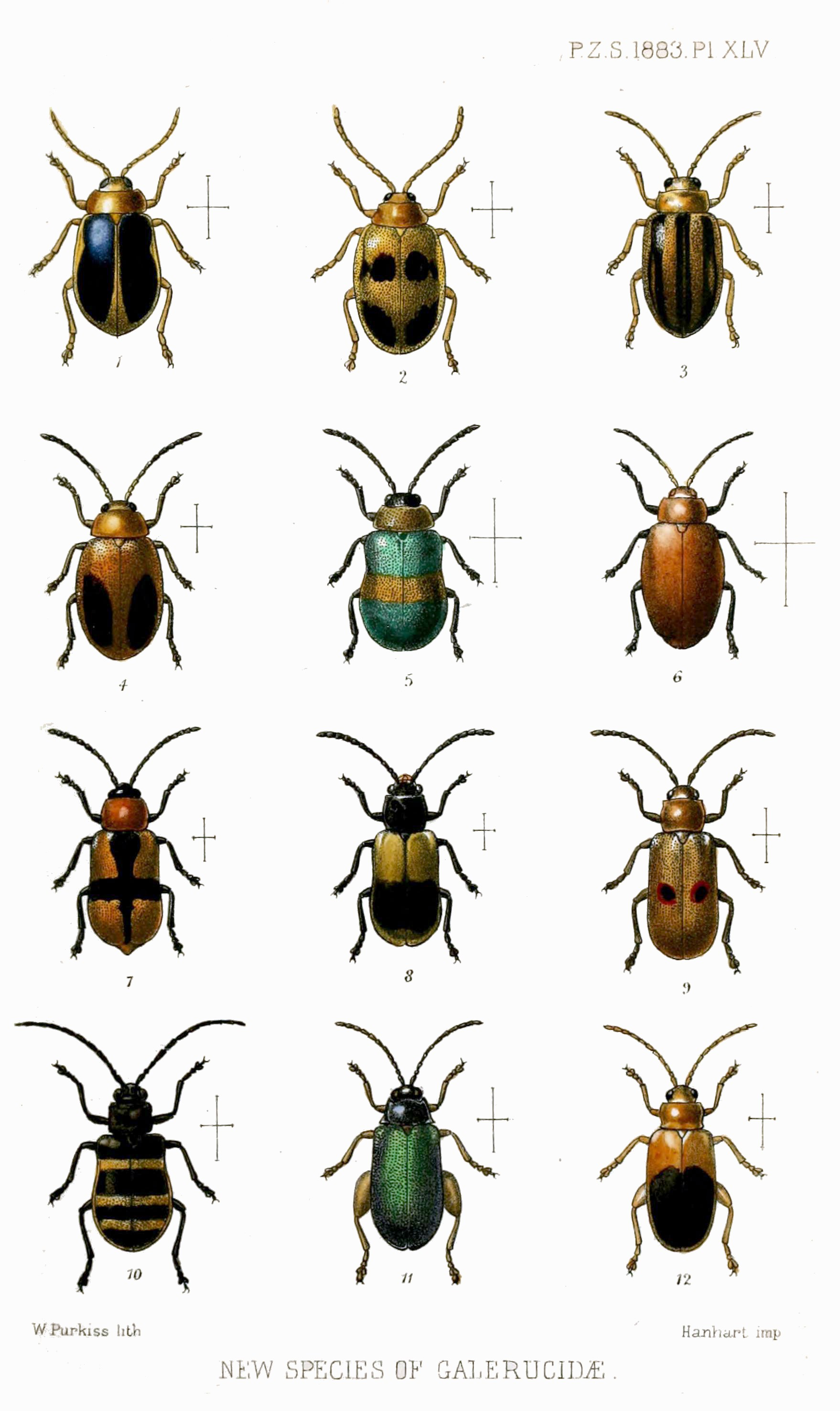 "New Species of Galerucinæ" (dorsal view)